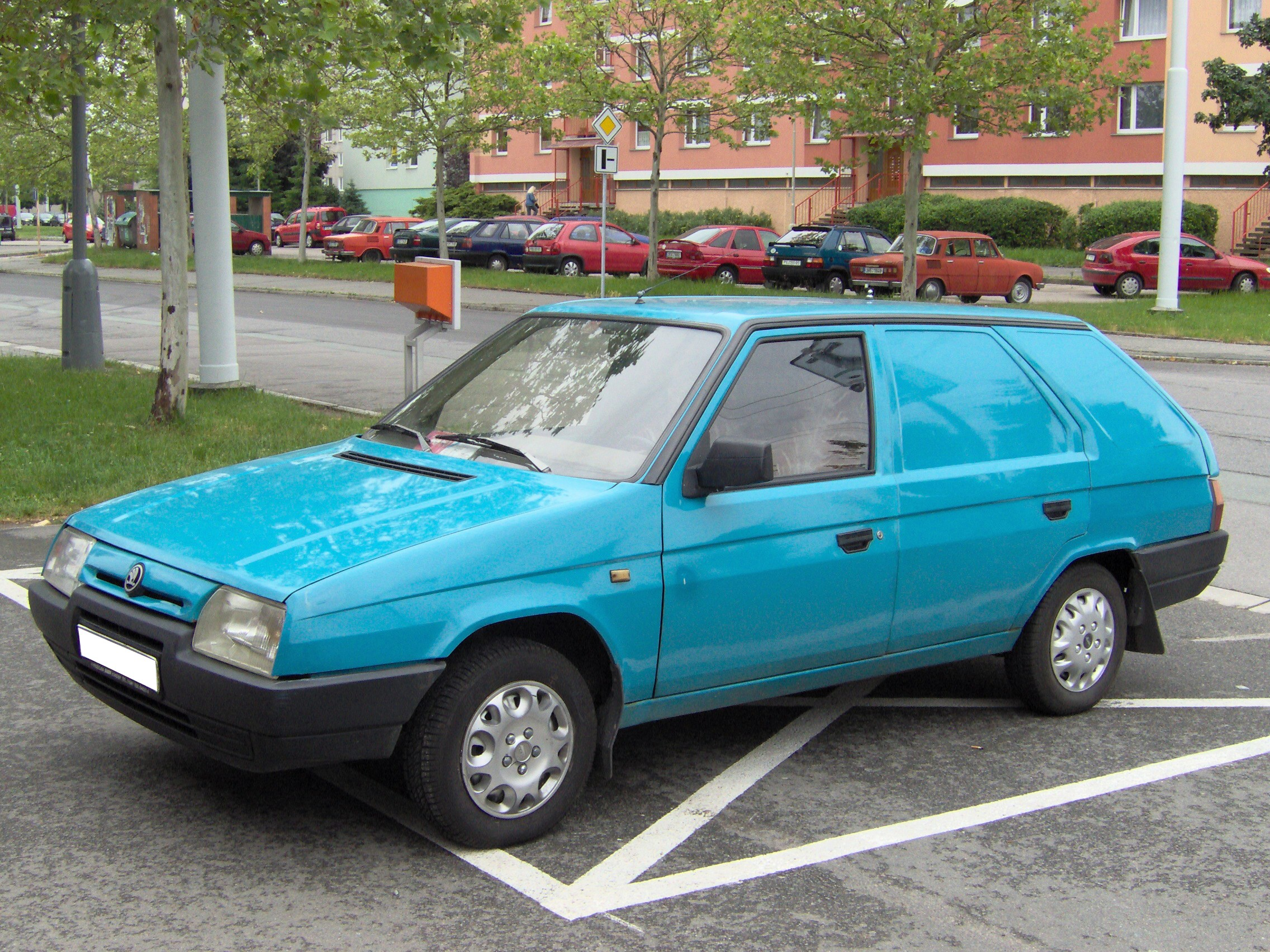 Škoda Forman Praktik, Pardubice, Czech Republic